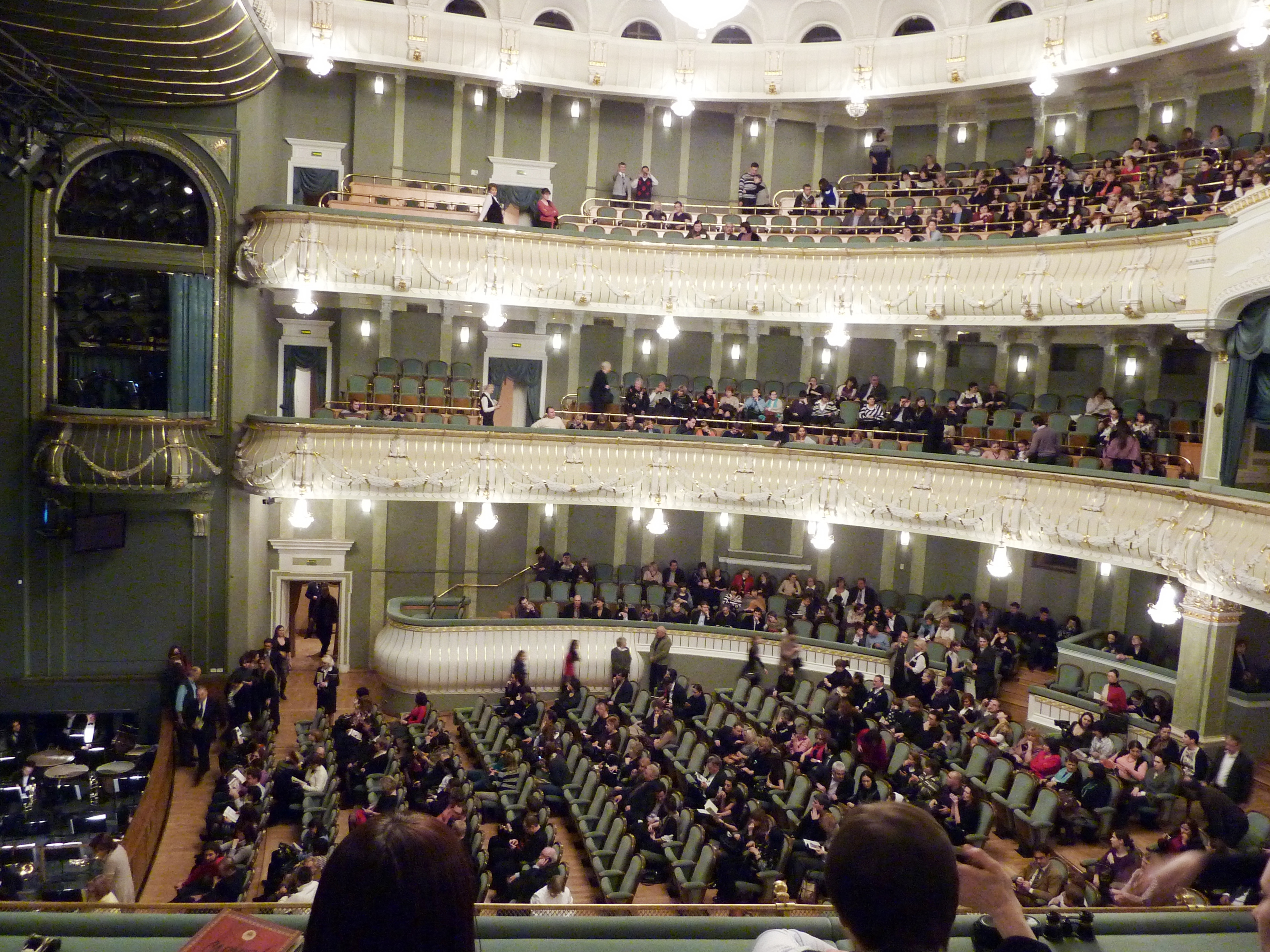 Main Hall Bolshoi Theater in Moscow